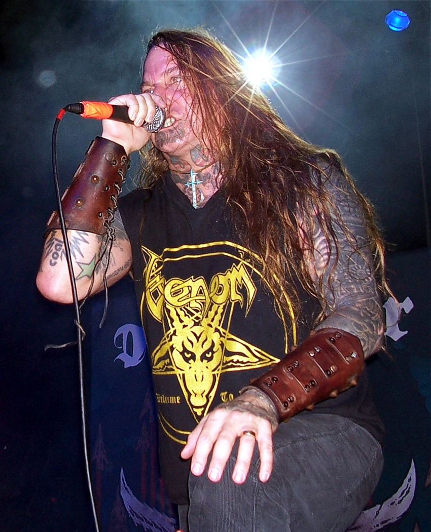 "DevilDriver" performing in Paard van Troje, The Hague, The Netherlands